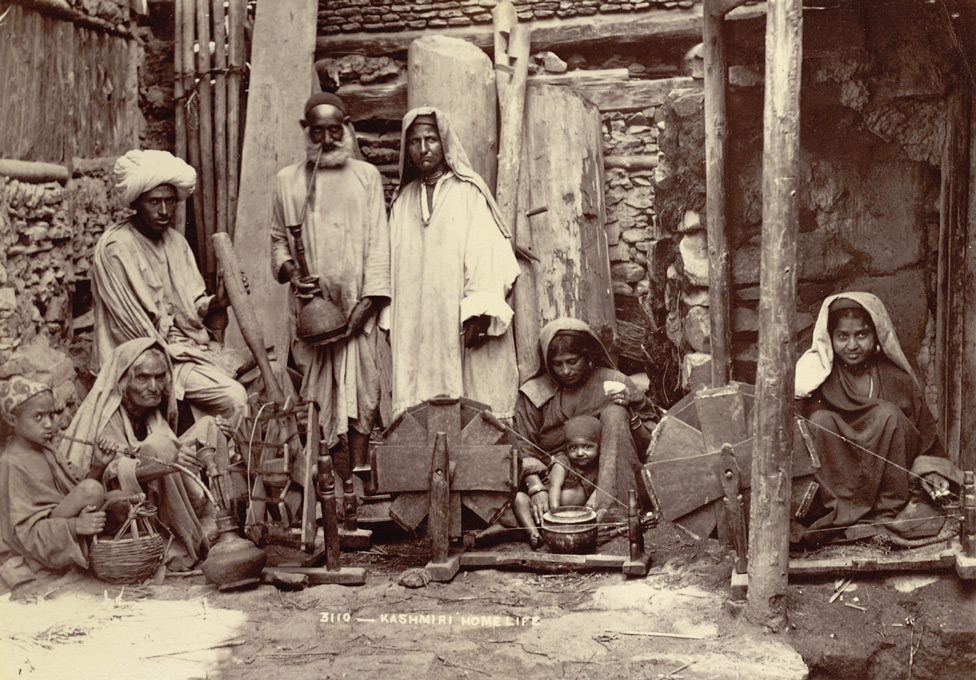 Photograph of a Kashmiri family group in the modern-day state of Jammu and Kashmir, taken by an unknown photographer in the 1890s. Jammu and Kashmir is a Himalayan region in north-western India famous for its lovely mountain scenery and lakes. Kashmiris work mainly on the land, producing crops and tending animals. Kashmir is also famous for its woollen textiles and the people produce fine shawls and carpets still using traditional methods going back centuries. The three seated women in the photograph are working on hand-operated charkhas or spinning-wheels; the right hand turns the handle and the left spins the thread onto the reel.